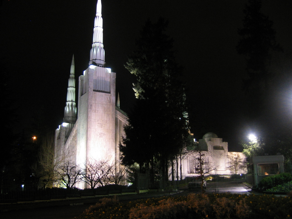 Night view of the Portland Oregon Temple of The Church of Jesus Christ of Latter-day Saints.